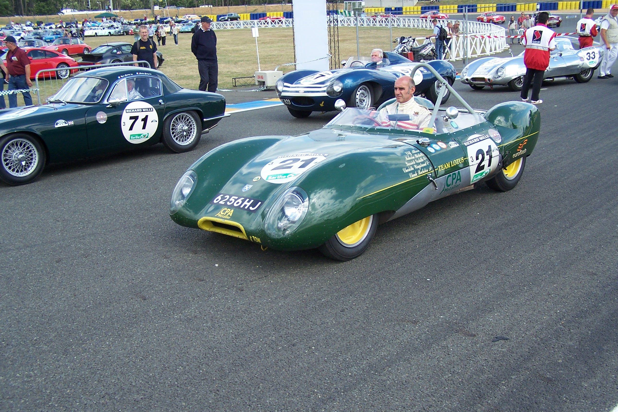 1957 Lotus XI at Le Mans Classic